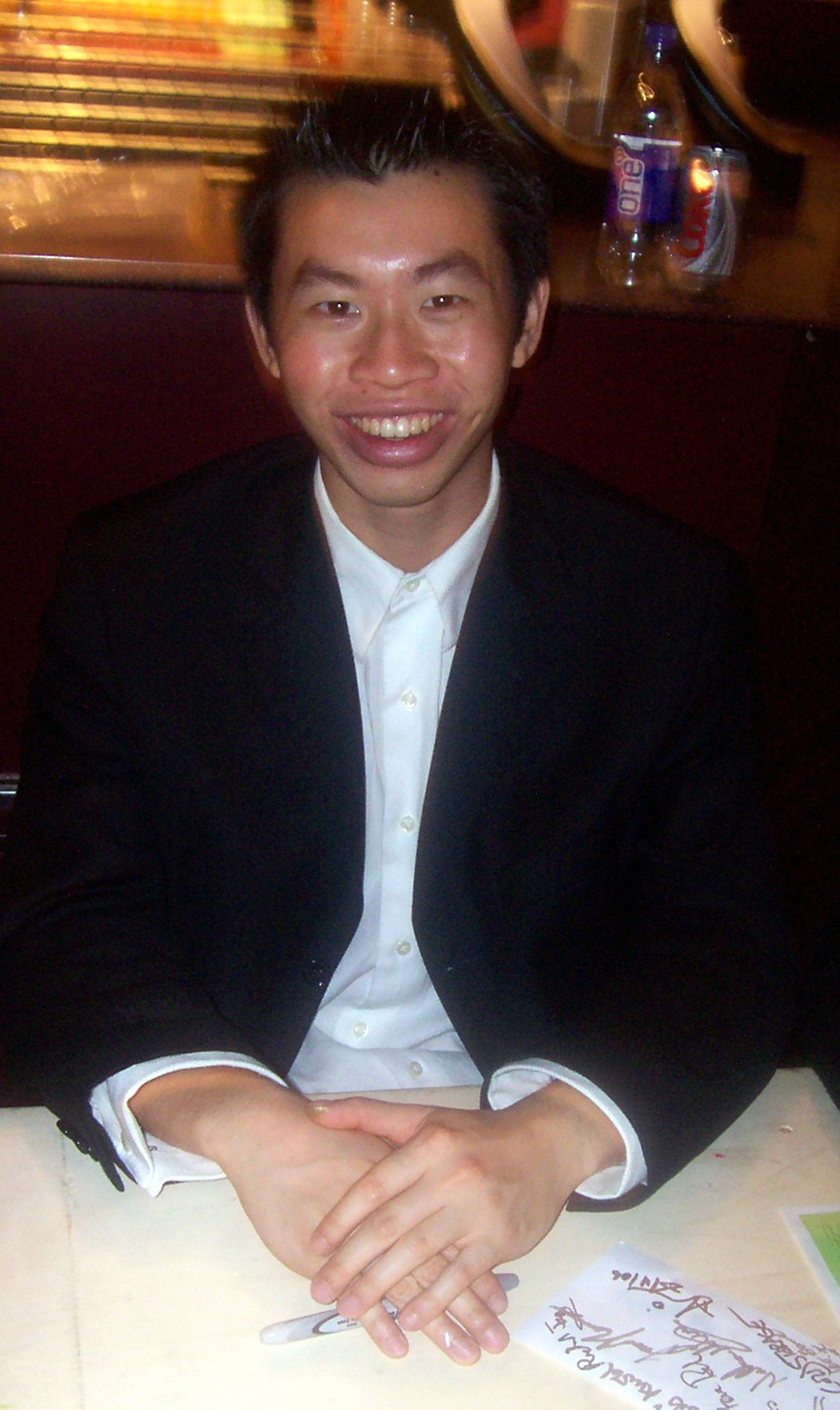 The Video Game Pianist, a.k.a Martin Leung at the composer meet-and-greet after the Video Games Live performance at the Hammersmith Apollo, London on November 25th, 2006. Photo taken by me